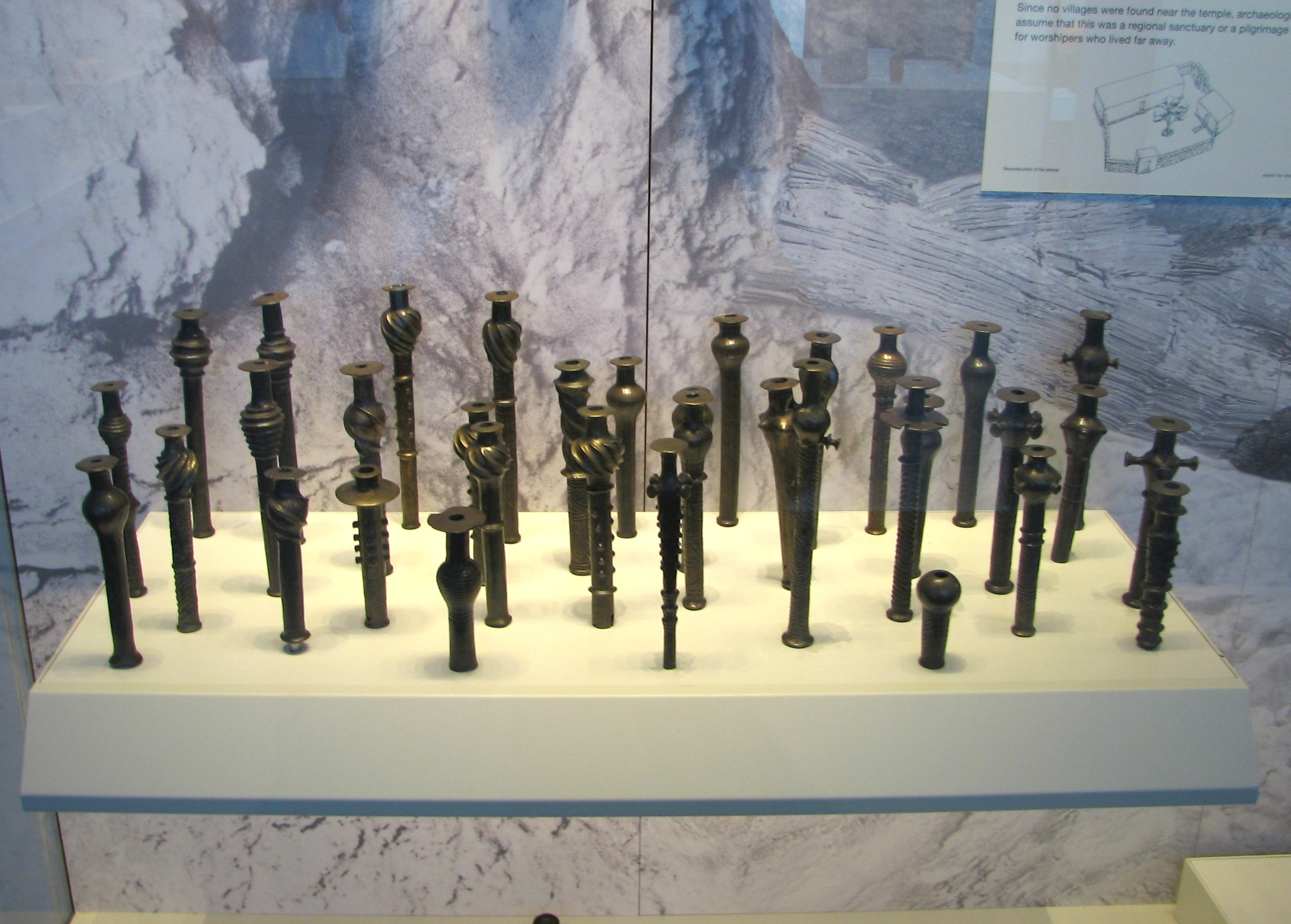 Jerusalem, Israel Museum - Treasure of Nahal Mishmar is a hoard of Chalcolithic artifacts discovered in a cave on the northern side of Nahal Mishmar. The hoard included 432 copper, bronze, ivory and stone decorated objects; 240 mace heads, about 100 scepters, 5 crowns, powder horns, tools and weapons